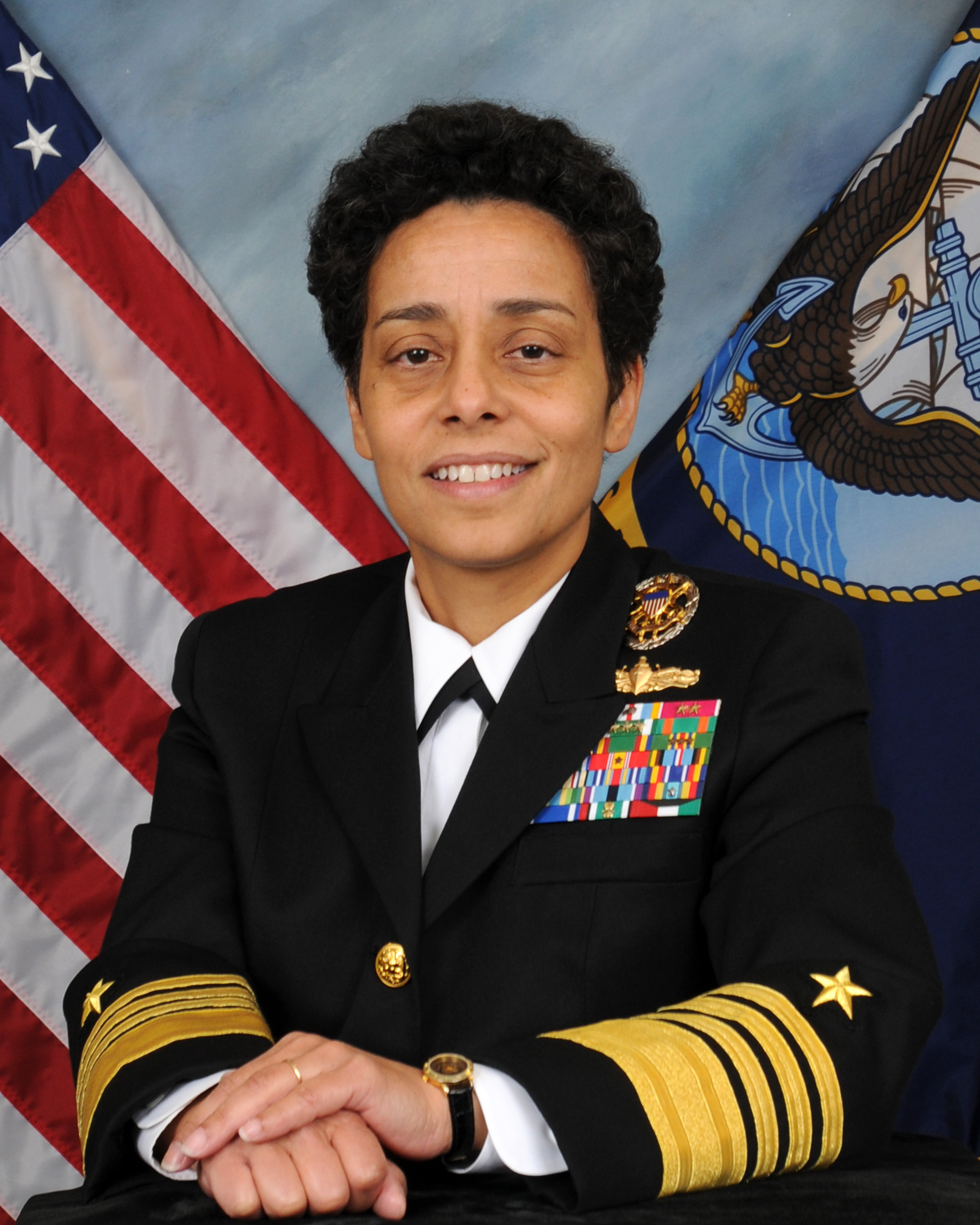 Admiral Michelle J. Howard, USN38th Vice Chief of Naval Operations